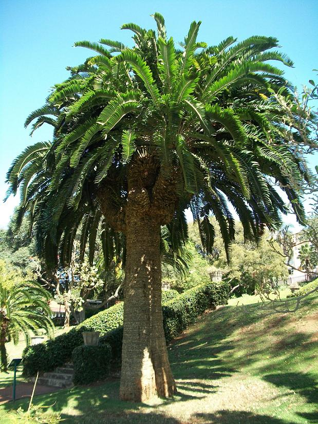 Large original stem of Encephalartos woodii growing at the Durban Botanic Gardens, South Africa